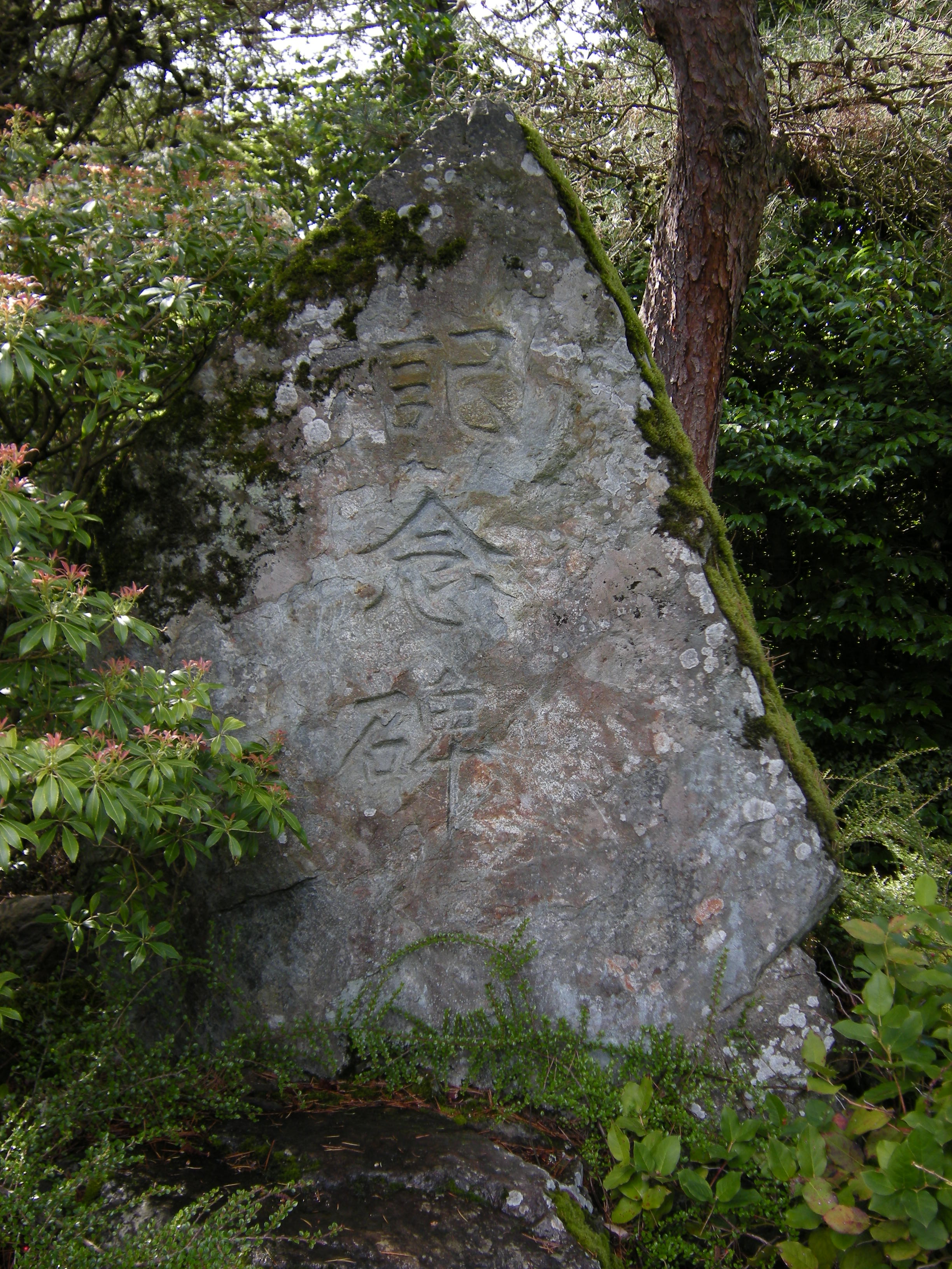 Rock with inscription in Kubota Garden, Seattle, Washington. The Japanese kanji read, from top to bottom, 記念碑, meaning "monument."